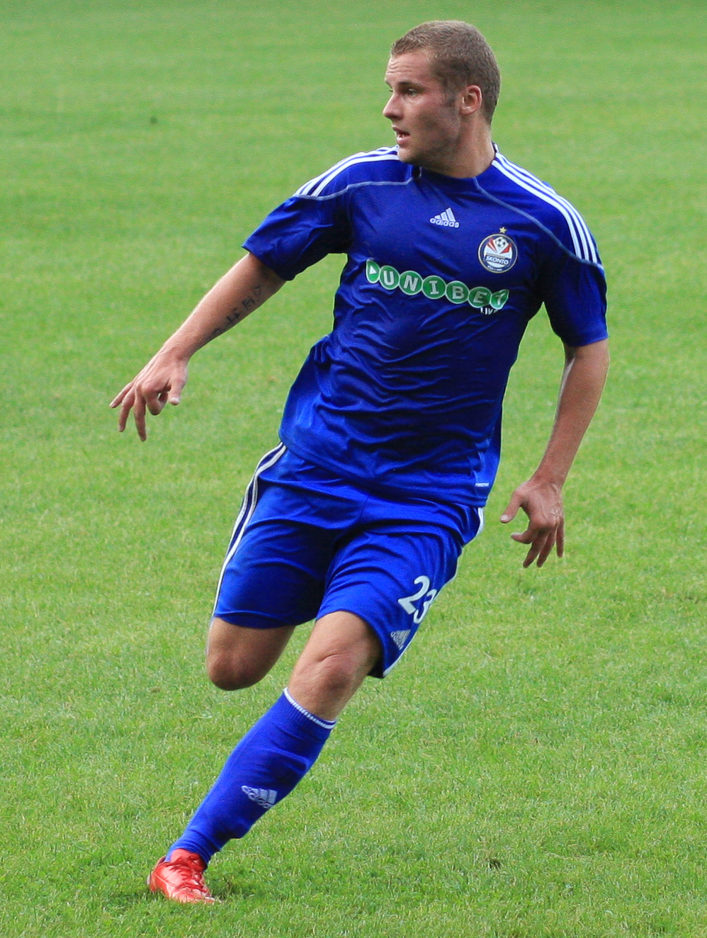 Alans Siņeļņikovs, Latvian football player